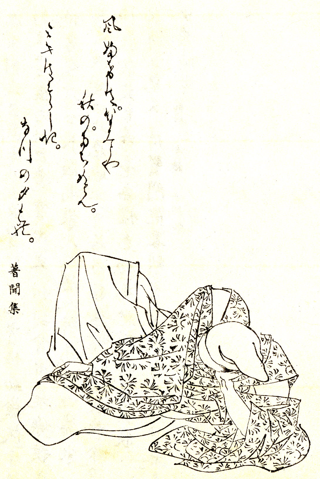 Fujiwara no Atsumitsu was a Japanese literary man in Heian period. This picture was drawn by Kikuchi Yōsai , and was printed in 1903.3.13.